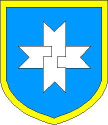 Coat of arms of Risti vald, Estonia